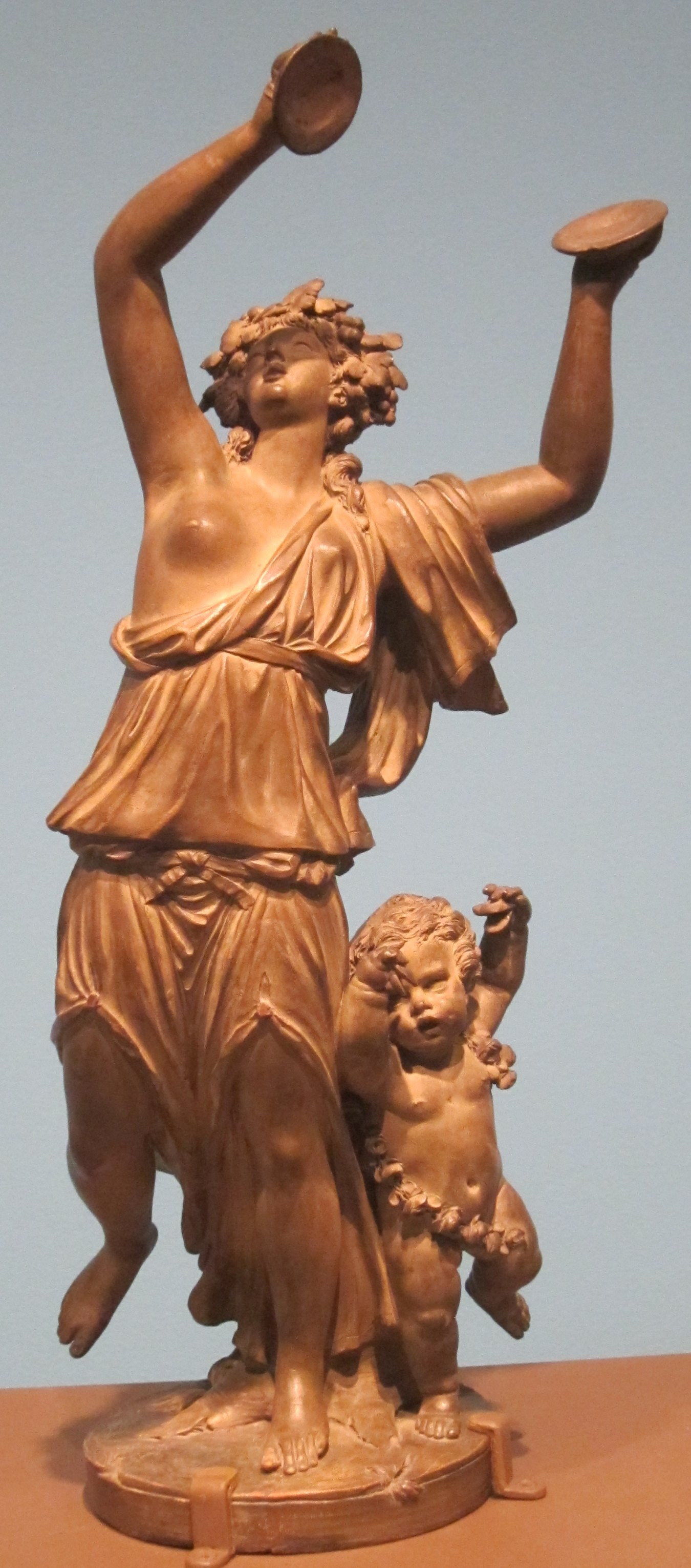 Dancing Bacchante with Amour, terracotta sculpture by Claude Michel (called Clodion), 1785, Honolulu Museum of Art accession 4944.1